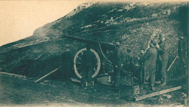 Greek artillery during the Battle of Bizani (1913)